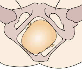 The left occipito-anterior variant of cephalic presentation